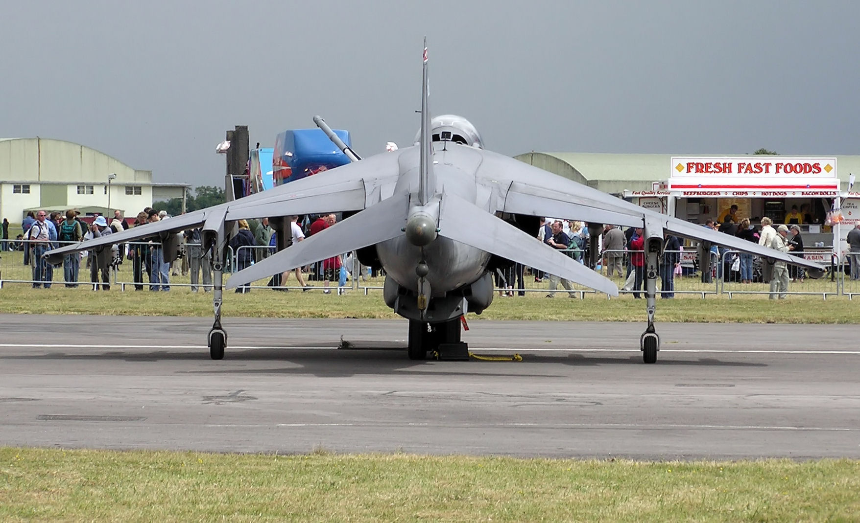 RAF Hawker Siddeley Harrier GR7A (ZG472/62A) seen at the Air Day at Kemble Airfield, Wiltshire, England.